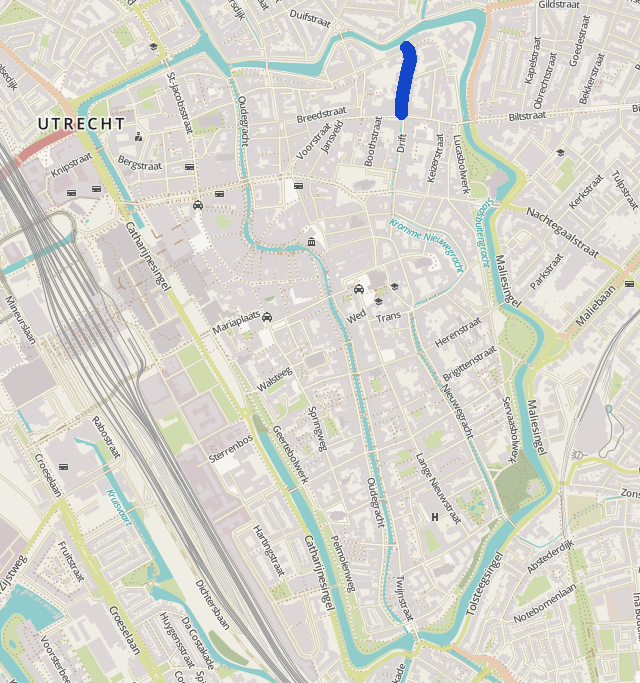 Map of the Plompetorengracht waterway in Utrecht, The Netherlands